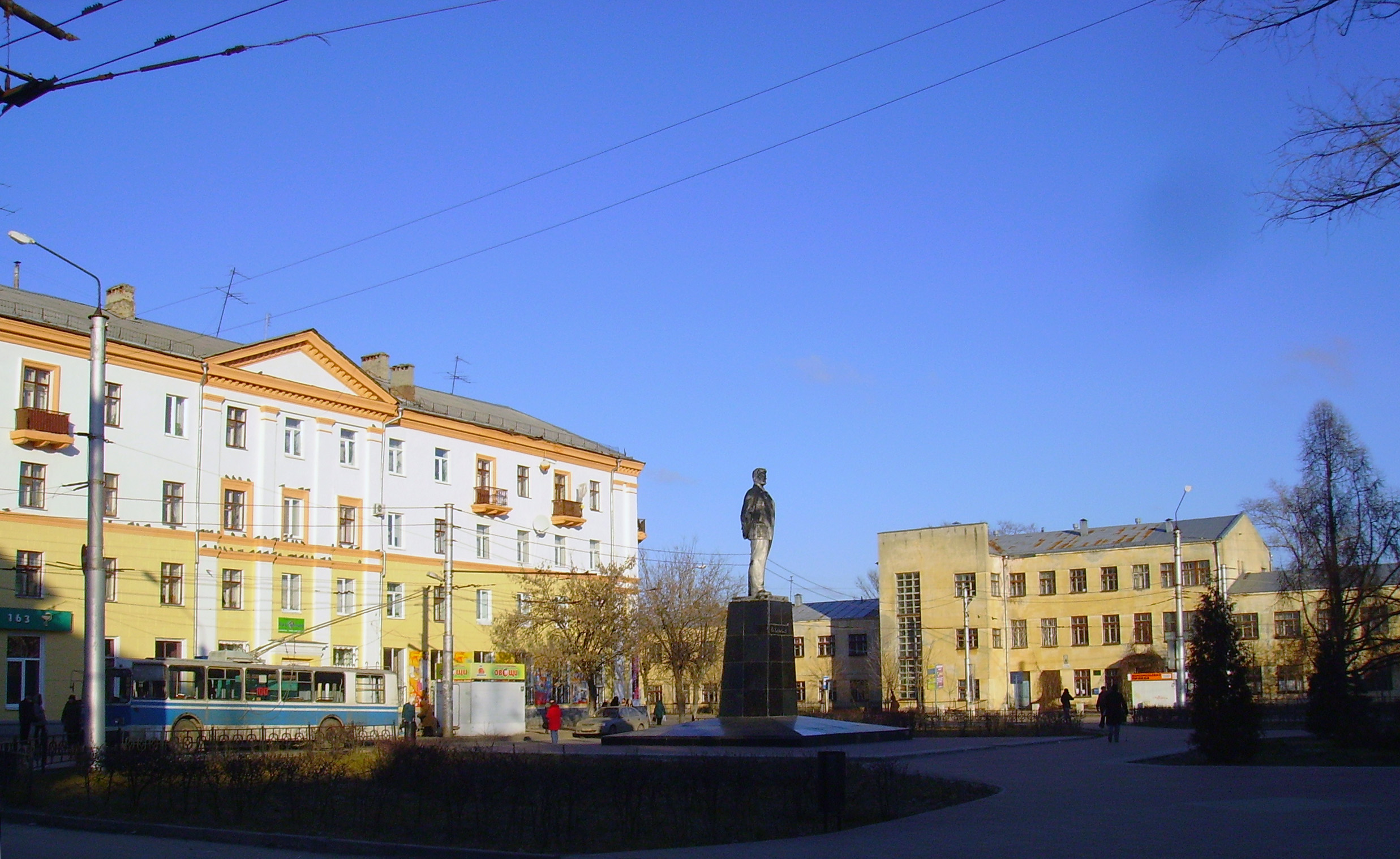 Mayakovsky Square